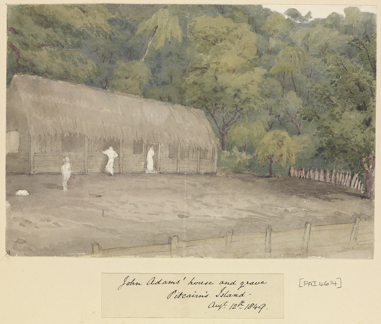 'John Adams' house and grave Pitcairn's Island, Augt 12th 1849'.